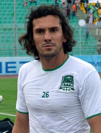 Márcio Abreu during FC Krasnodar pre-match training